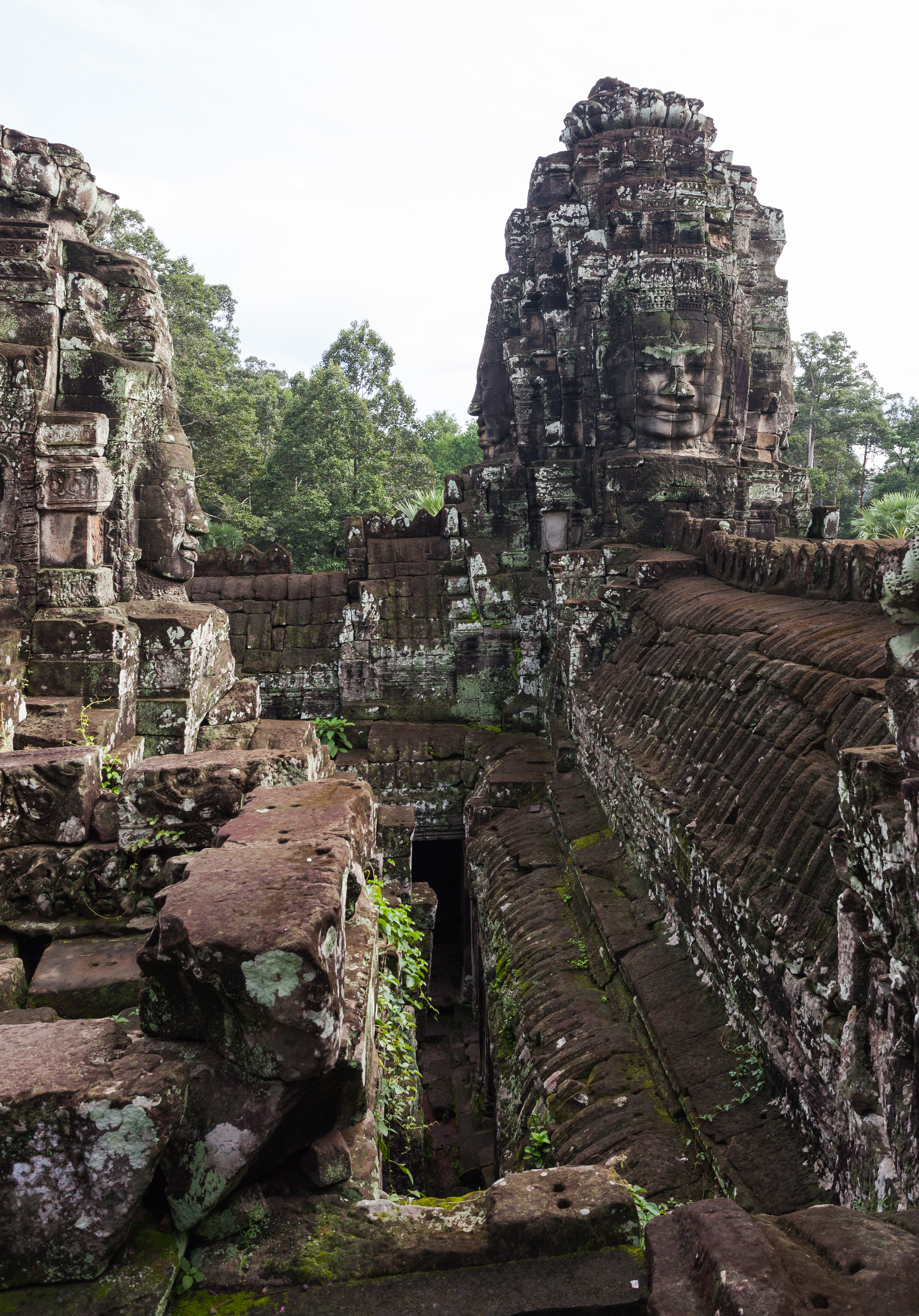 Bayon, Angkor Thom, Cambodia